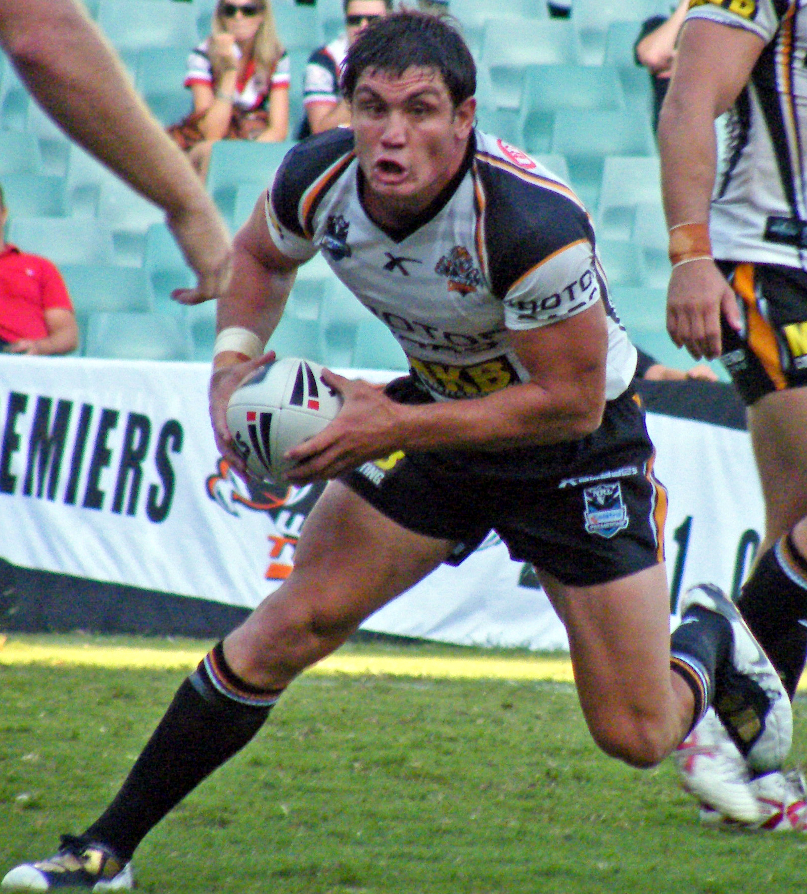 Chris Heighington